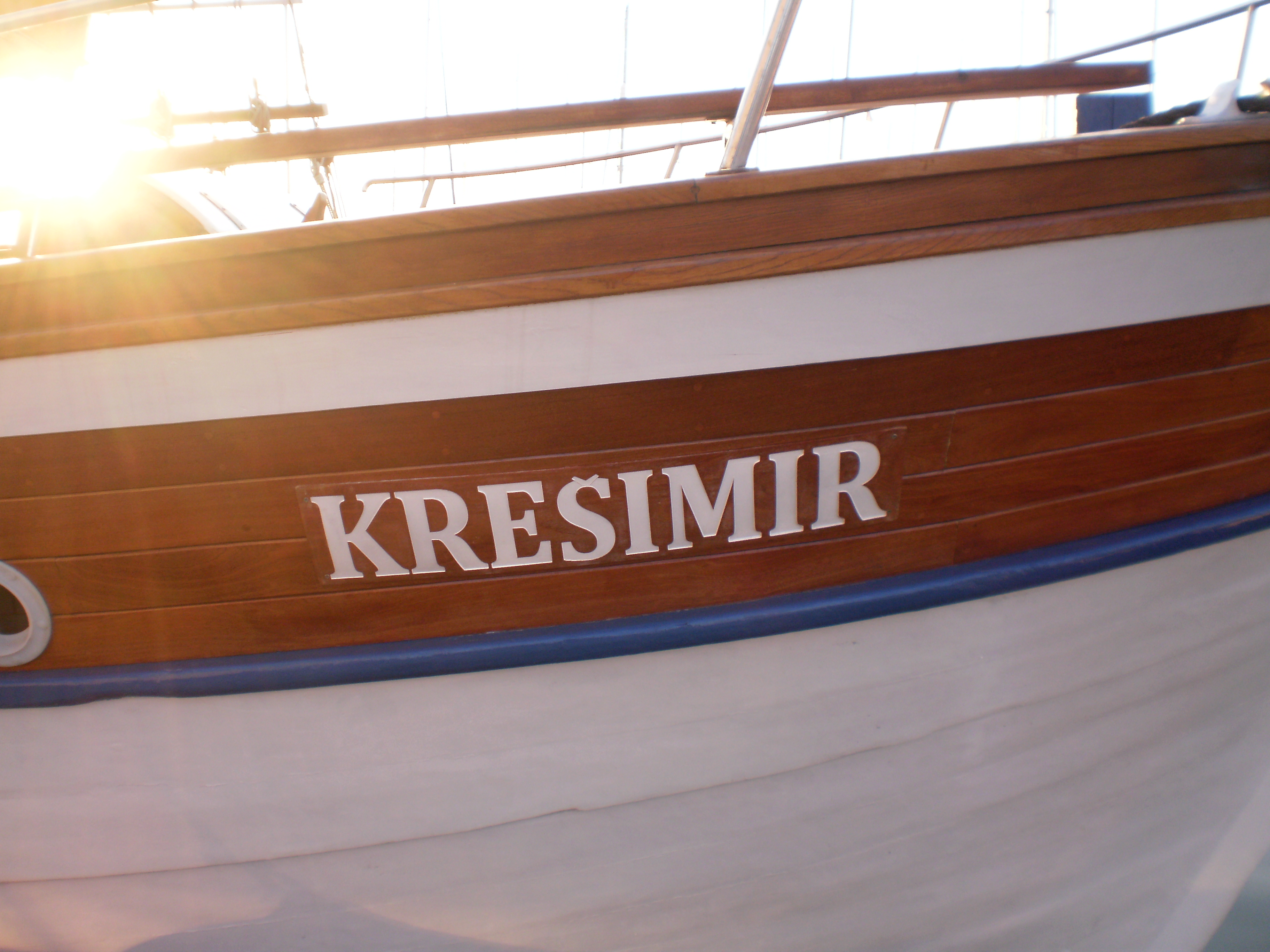 Kresimir (boat)